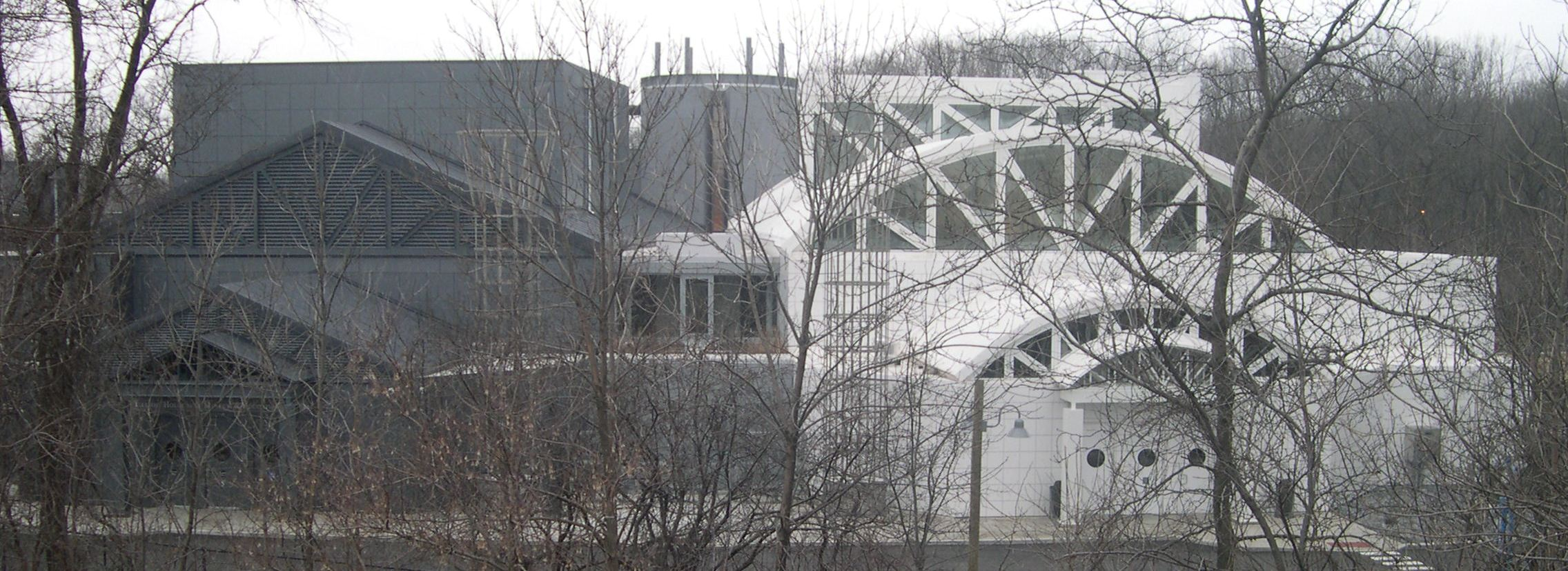 Front of Illinois Holocaust Museum and Education Center, Skokie. Building architect is Stanley Tigerman. The entrance is on the black part of the front and the exit on the white.